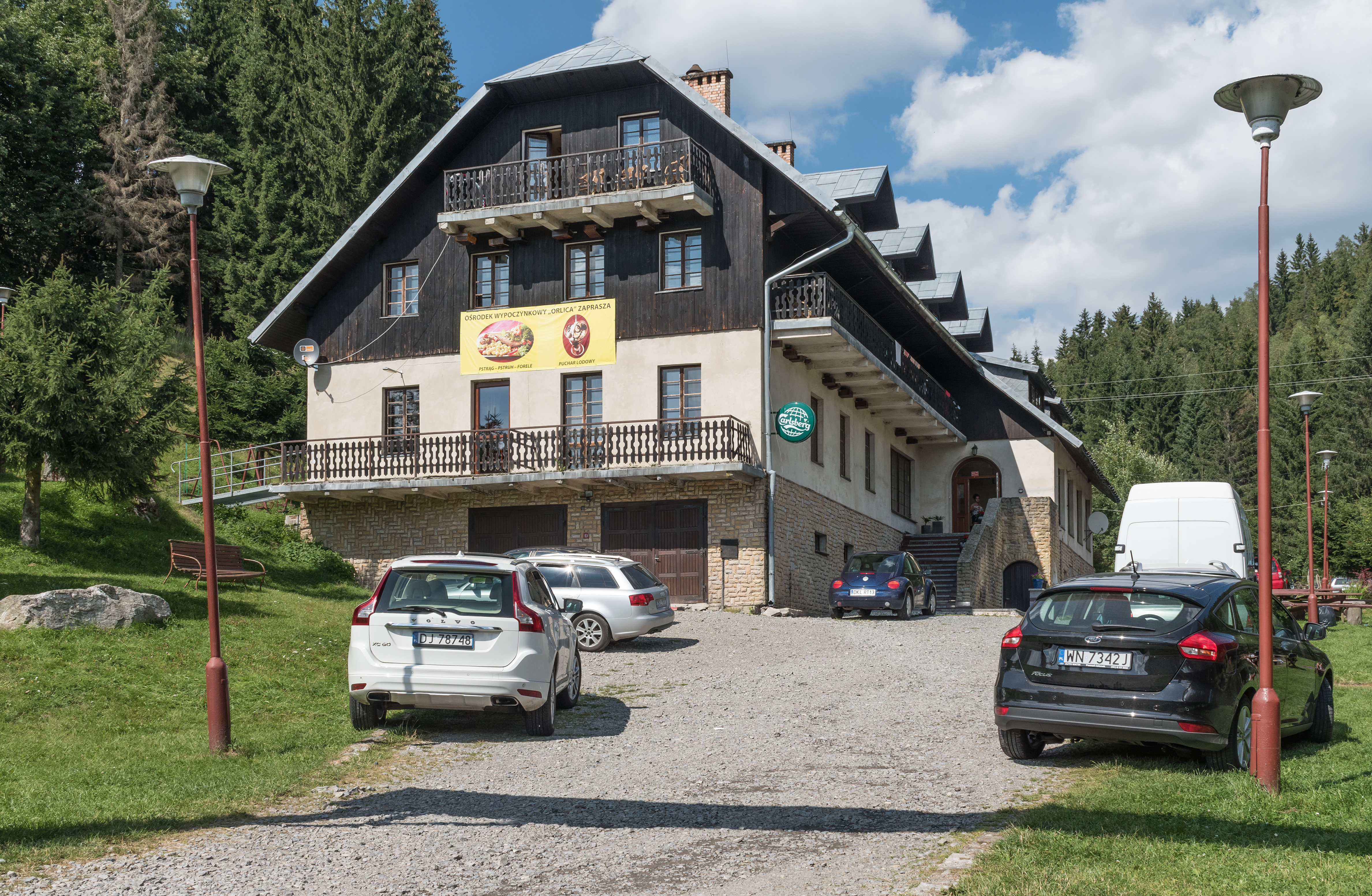 Orlica Holiday Resort in Rudawa